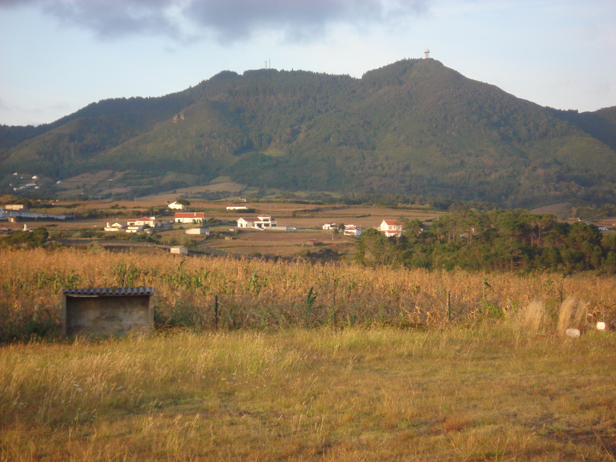 Pico Alto, the tallest peak on the island of Santa Maria, Azores